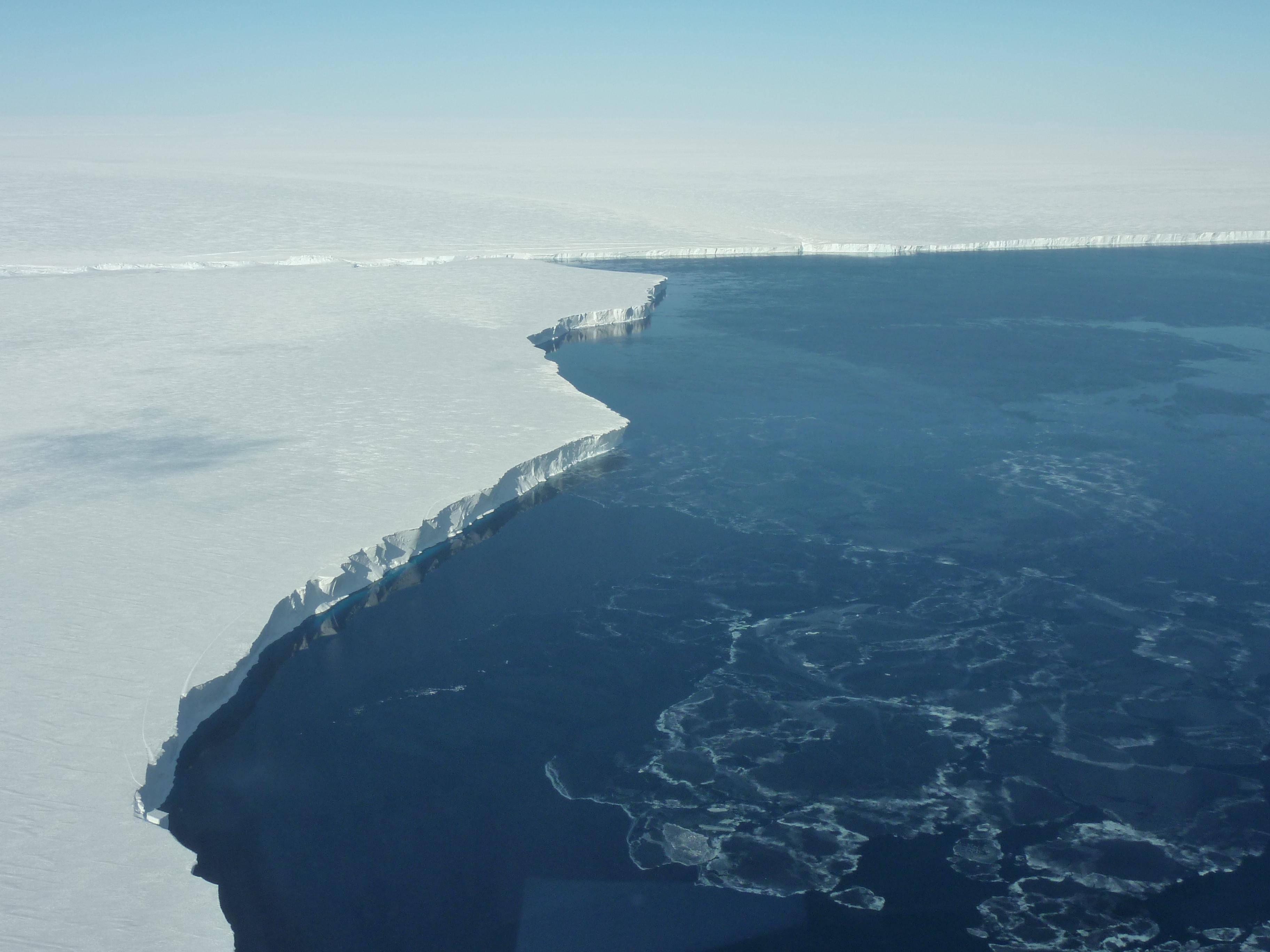 The Getz Ice Shelf extends several miles into the ocean from the Getz glacier as it empties into the ocean along the Antarctic coast. The vertical face of the ice shelf is almost 200 feet high and is estimated to extend another 1000 feet below the ocean surface. This photo was taken from NASA's DC-8 flying science laboratory during an IceBridge mission flight.